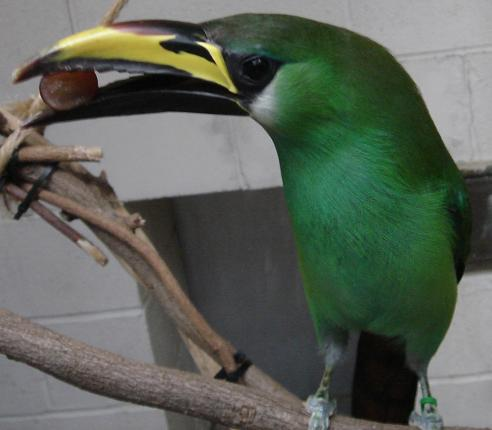 Emerald Toucanet (Aulacorhynchus prasinus) male in captivity eating a grape.